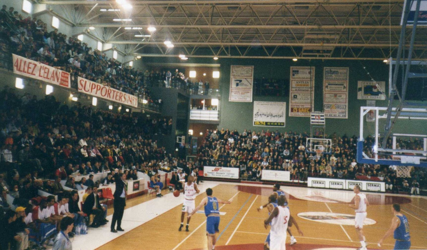 Match Pro A : Elan Chalon contre Montpellier